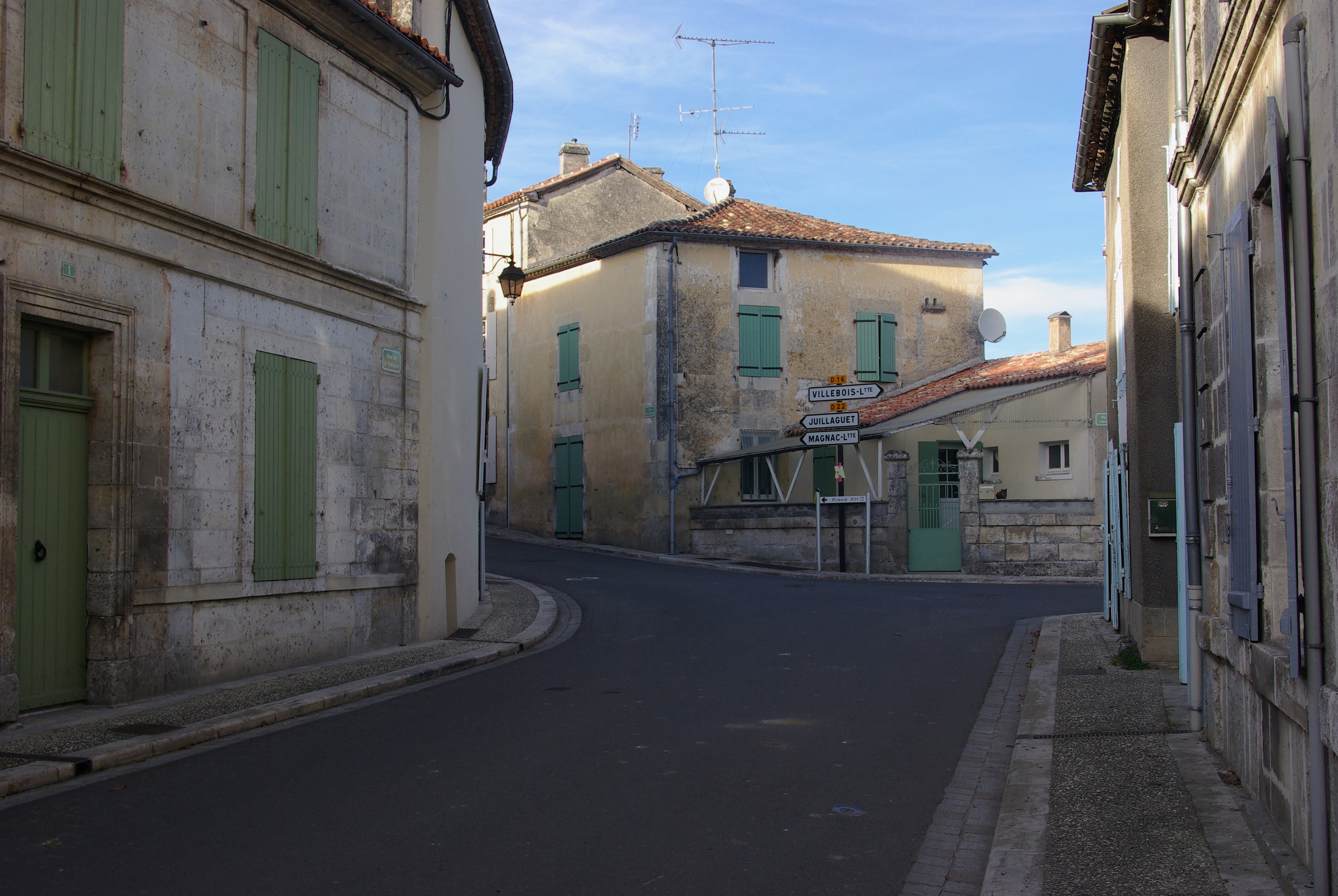 Junction between roads D 16 and D 22, village center, Ronsenac, Charente, France.